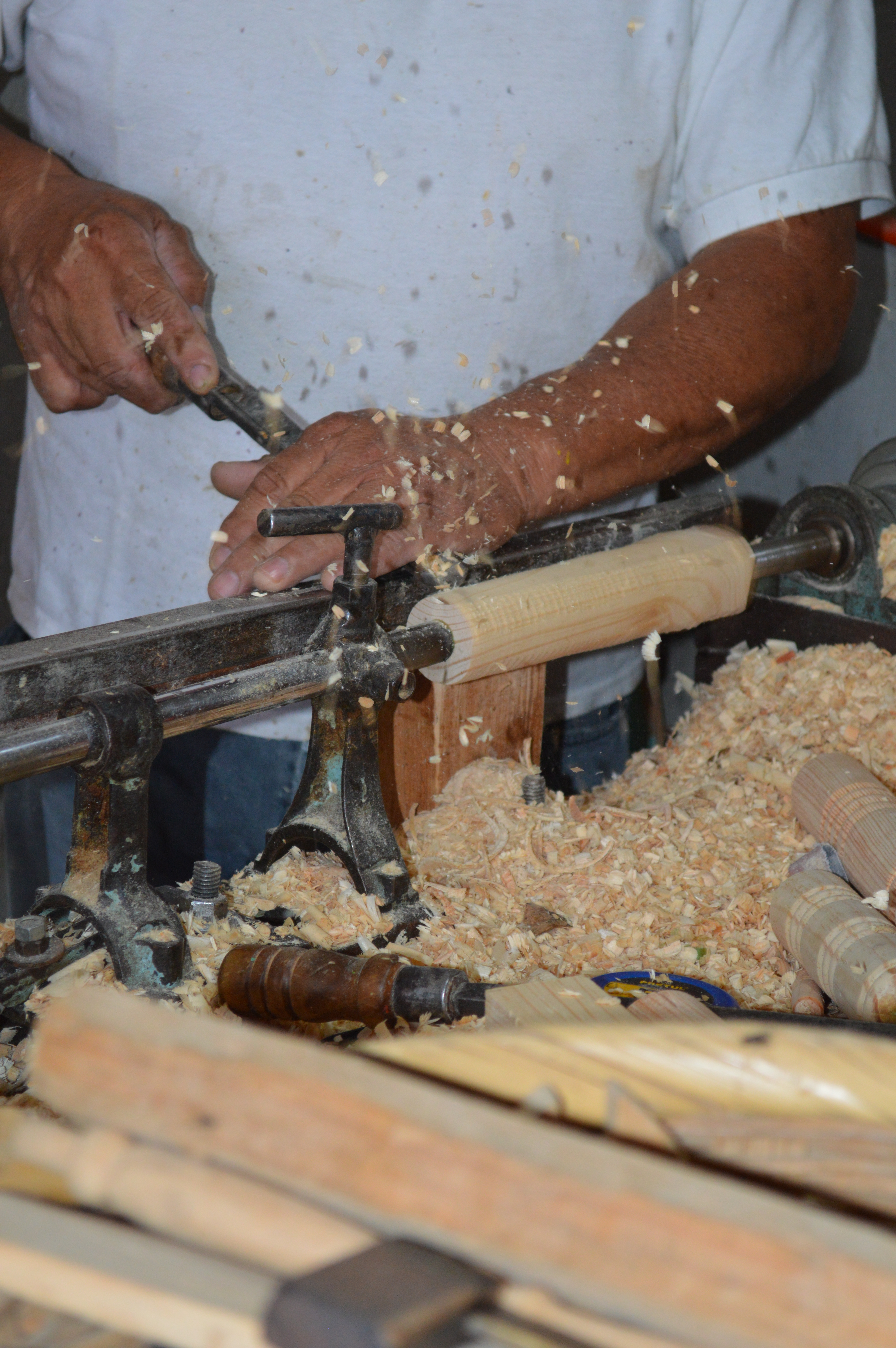 Gregorio Vara working on a chair leg at the workshop in Tenancingo, State of Mexico